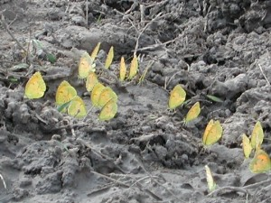 Eurema nicippe Sleepy Oranges clustering on a damp spot